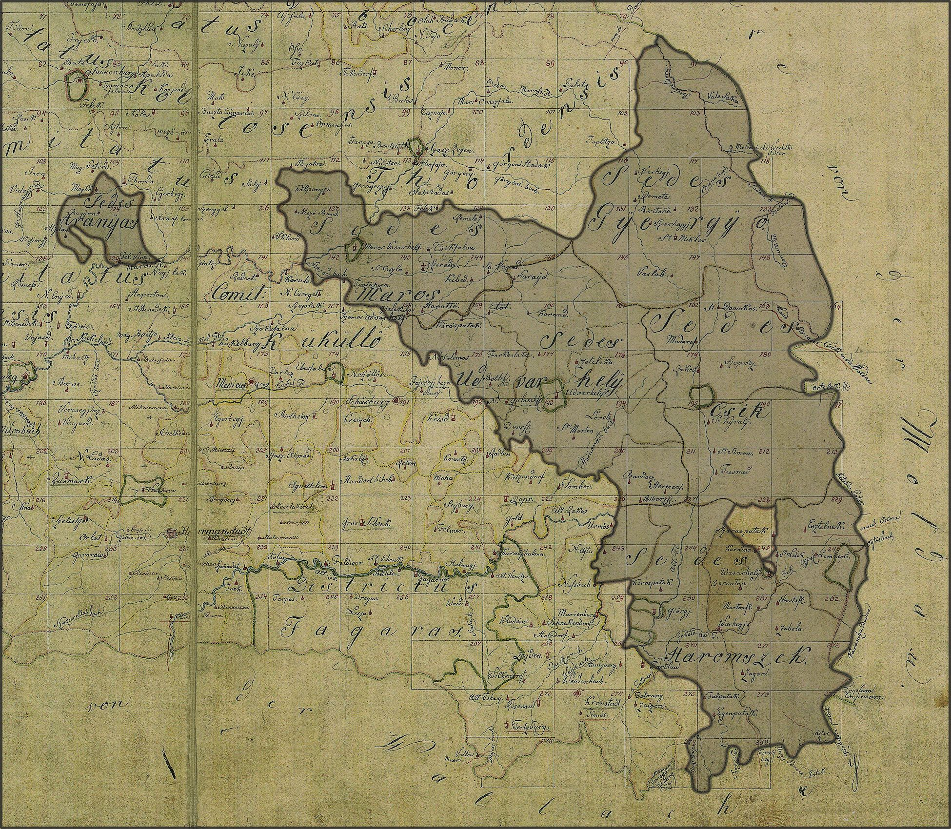 Szeklerland in Transylvania